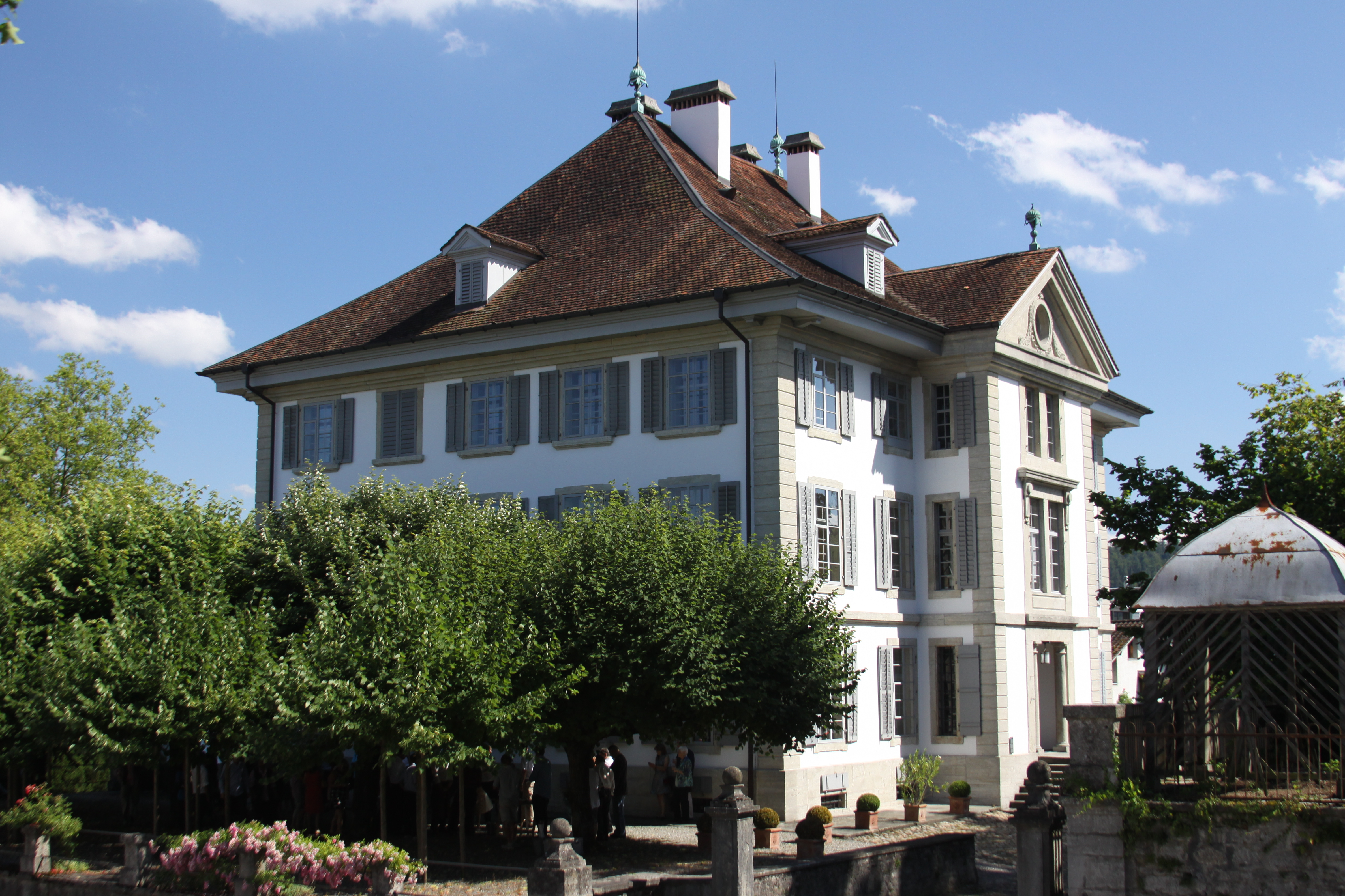 Müller House, Bleicherain 7, Lenzburg